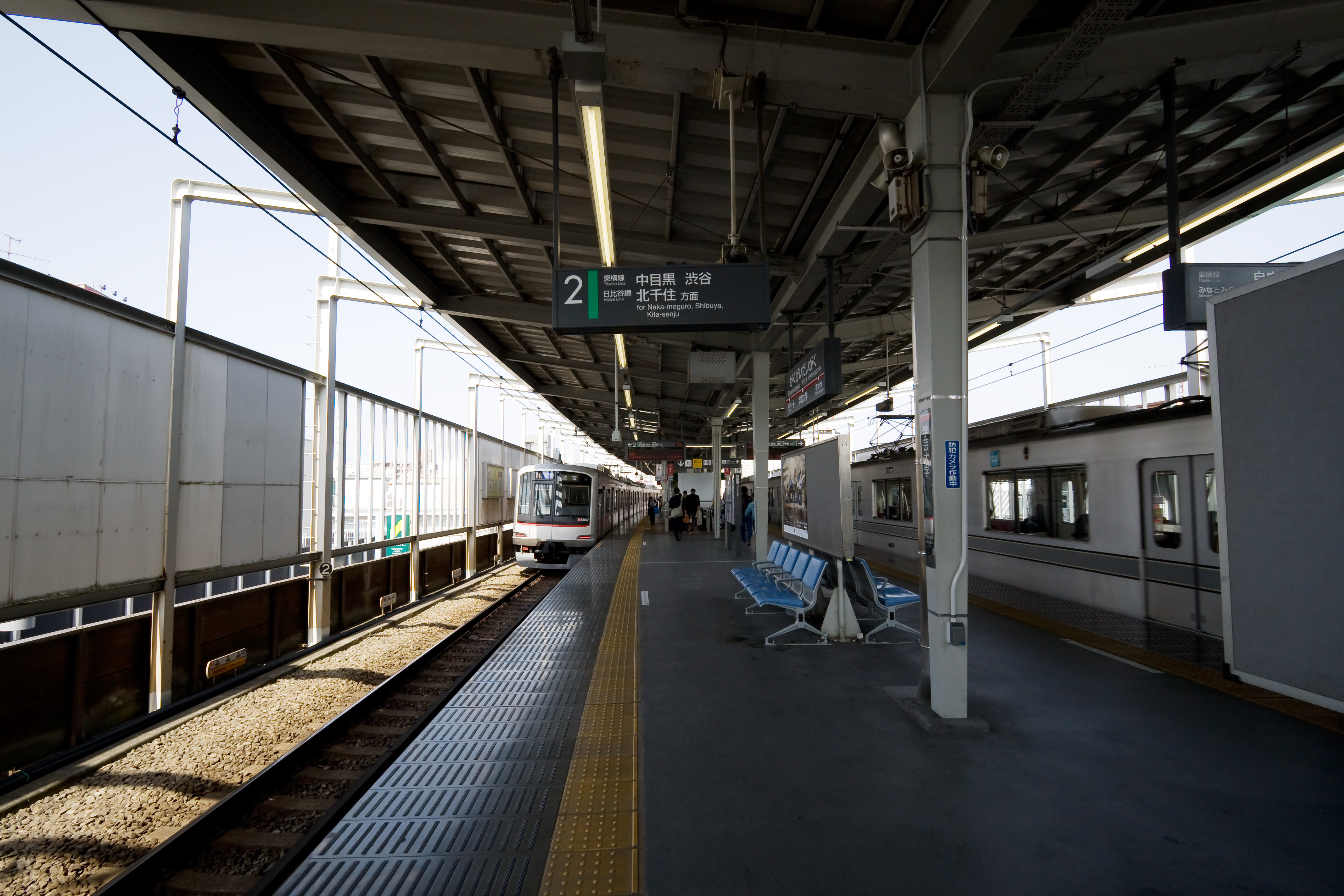 Gakugei-daigaku Station Platform